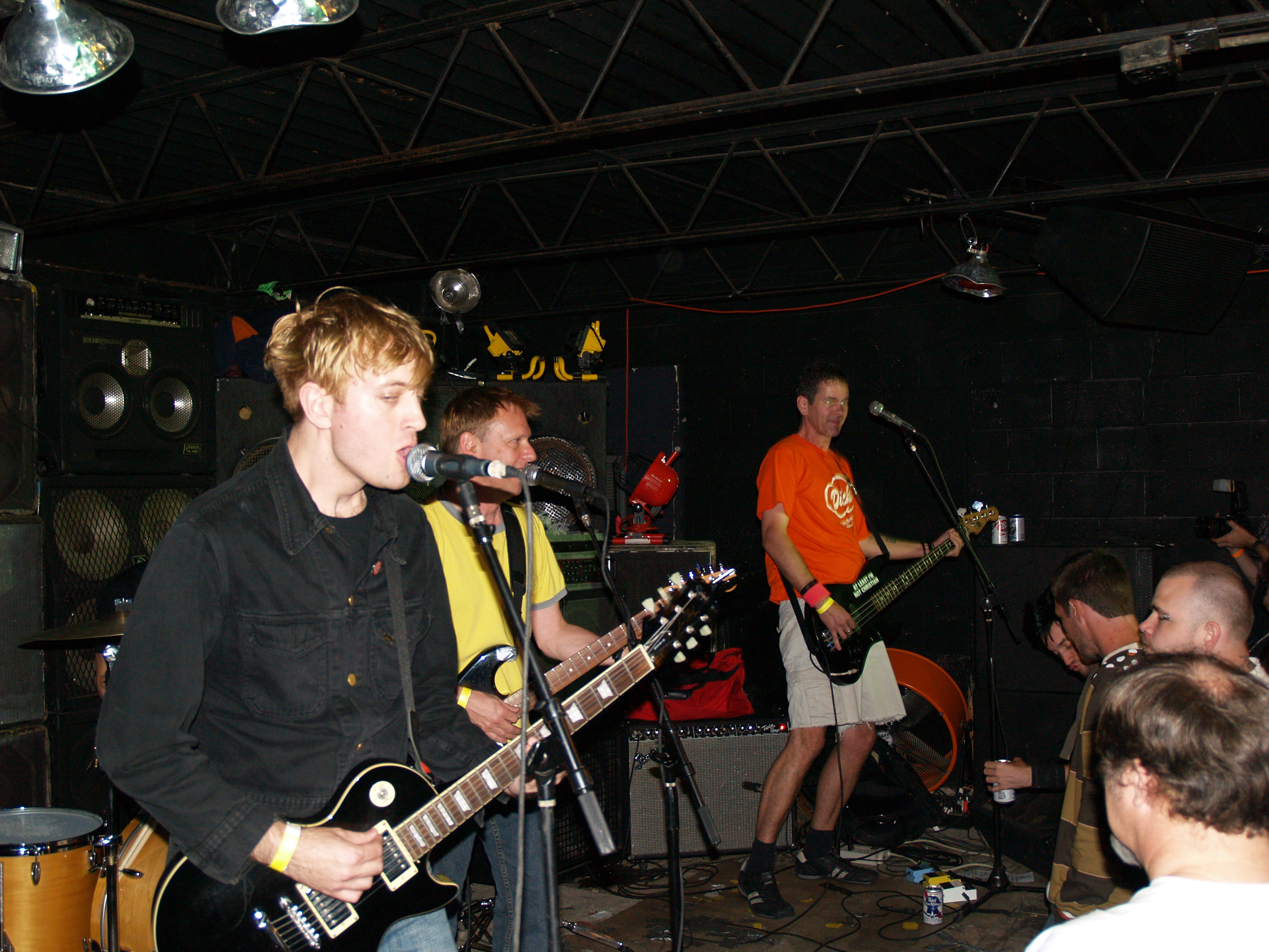 Pansy Division in concert.